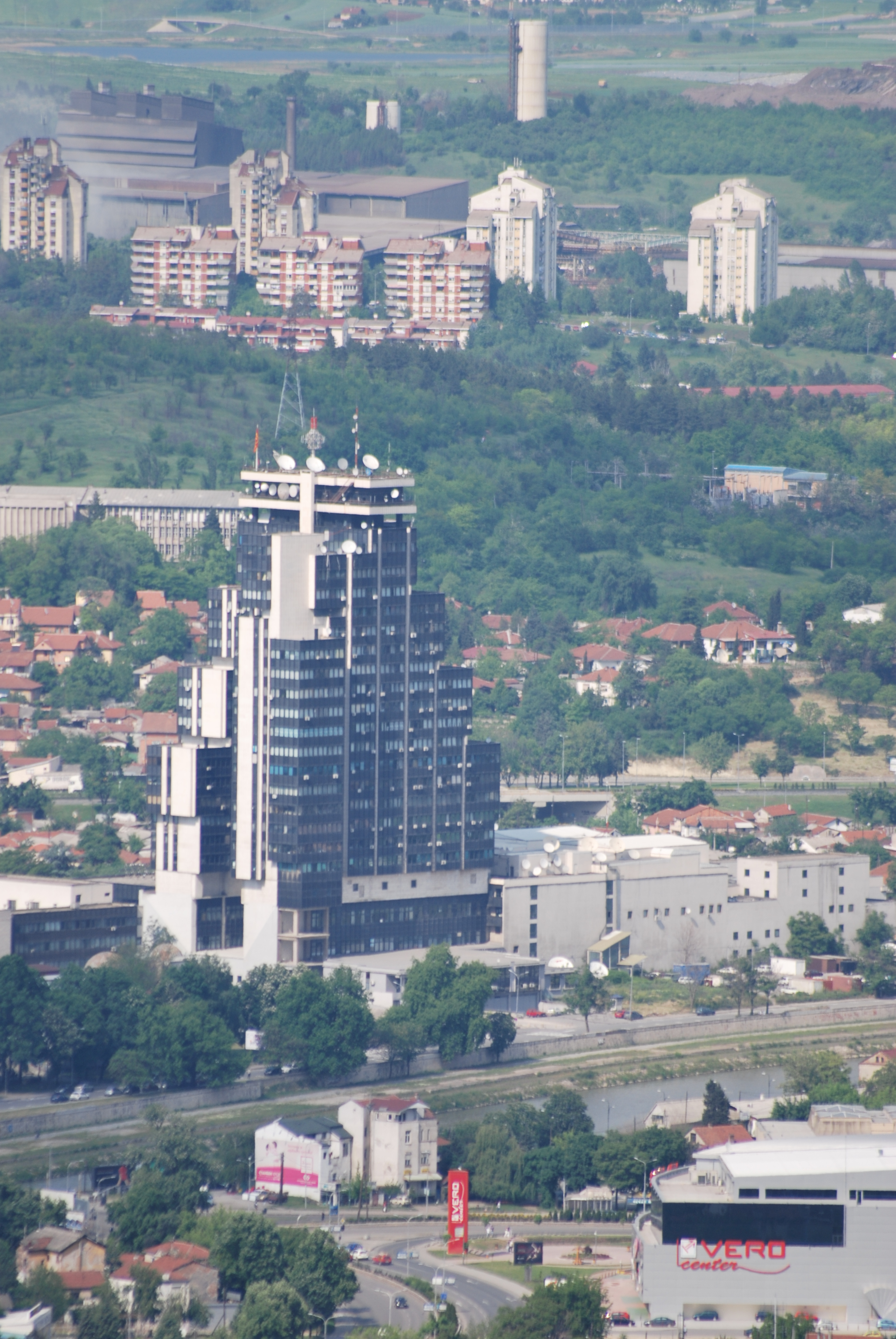 Skopje, Macedonia